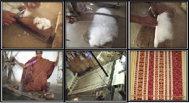 Weaving,ponduru,march25.png